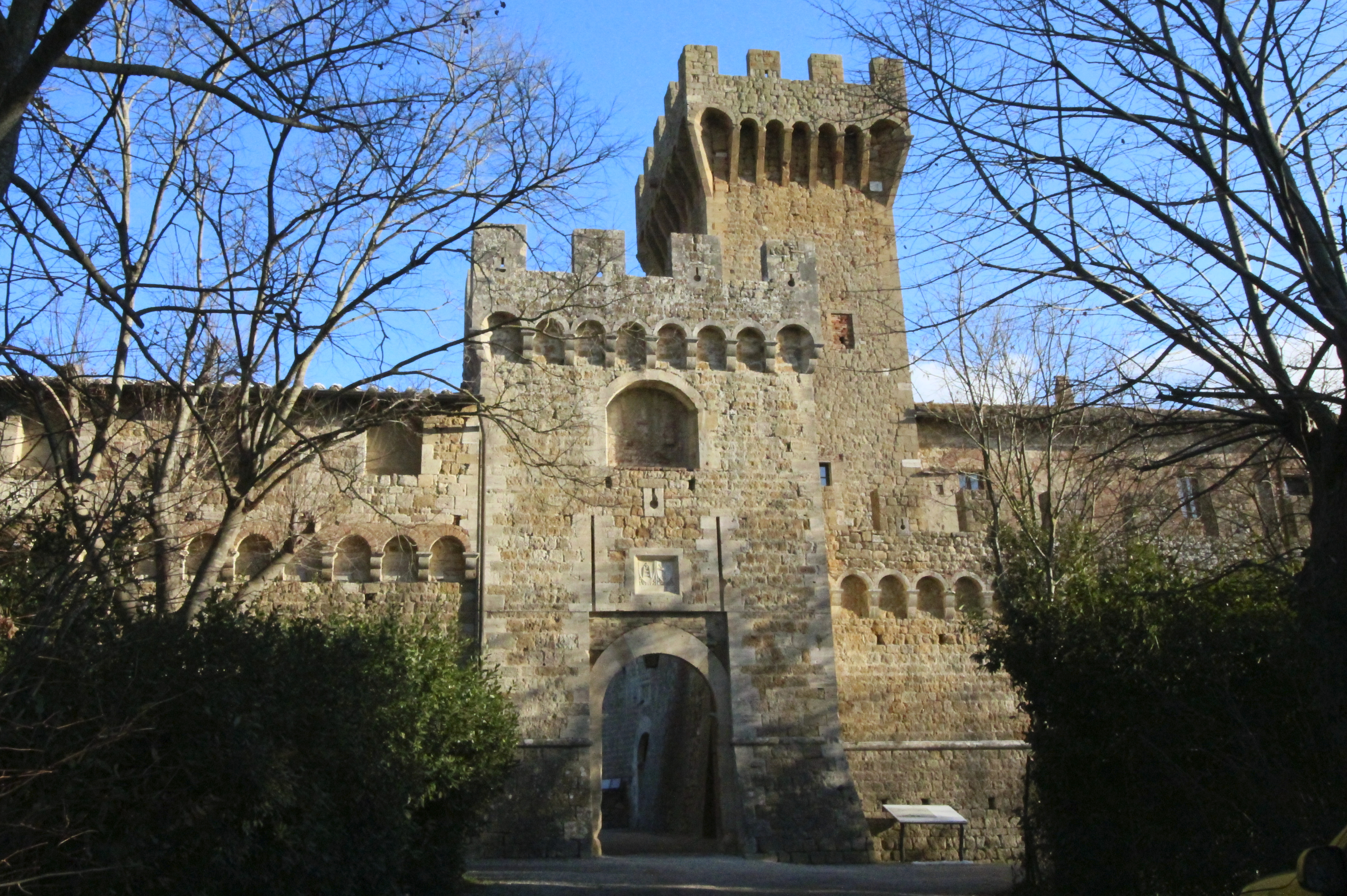 Castle Castello di Spedaletto, south of Pienza, Province of Siena, Tuscany, Italy